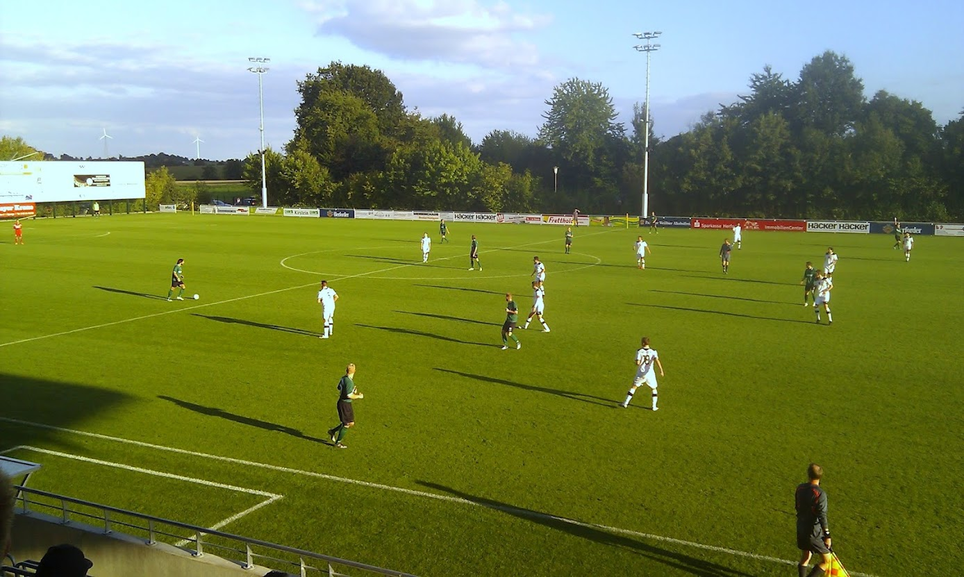 Häcker-Stadium in Rödinghausen, District of Herford, North Rhine-Westphalia, Germany.